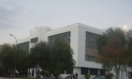 EMU Library Arial